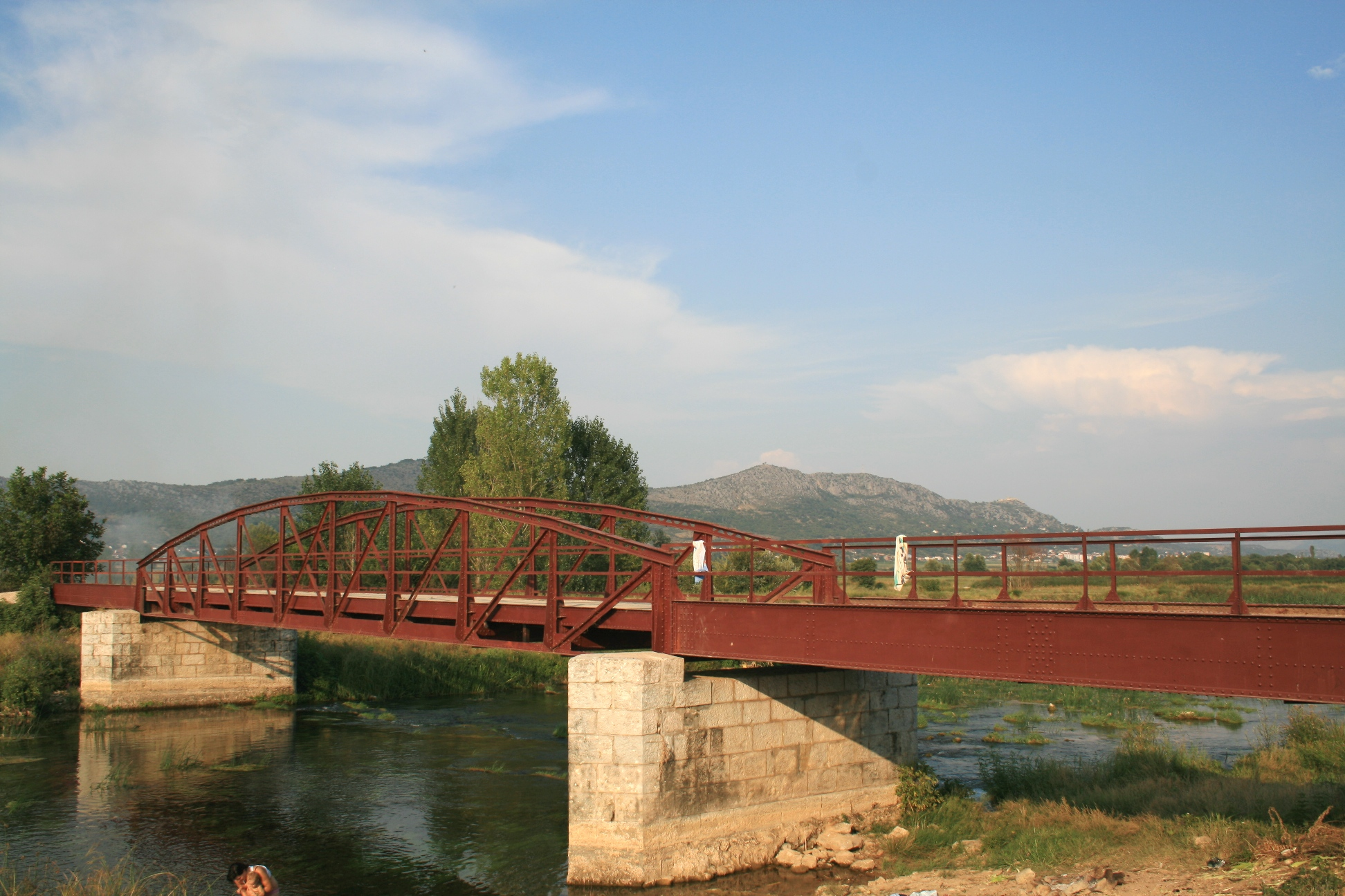 Crvengorski most in Lisice, Ljubuški, Bosnia and Herzegovina